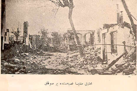 A destroyed street in the town of Manisa after the fire of 5-8 September 1922. The caption below in Ottoman Turkish script reads: "Muhterik Manisa kasabasında bir sokak". "A street in the burned town of Manisa."